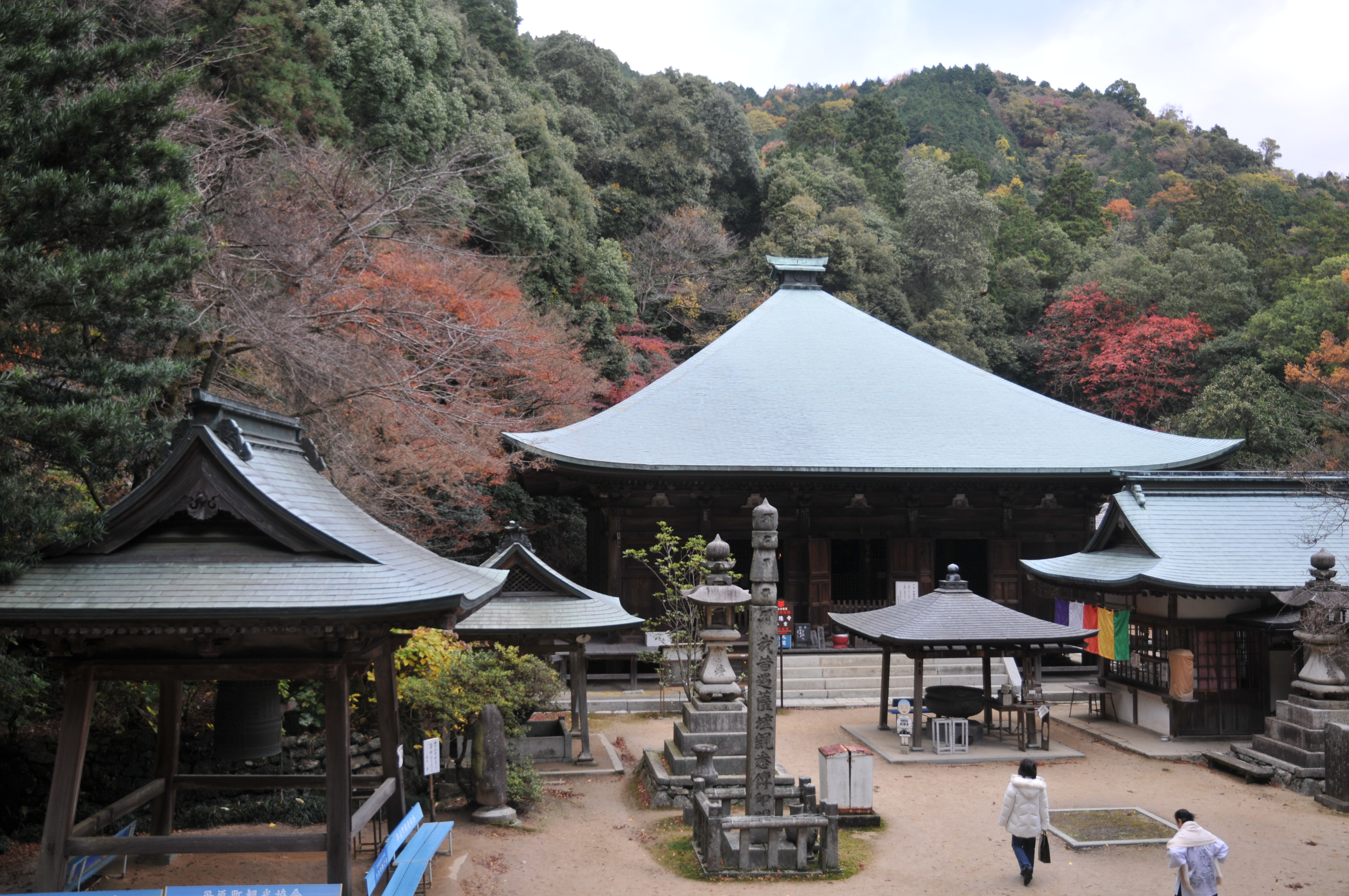 Nishiyama Kōryū-ji temple